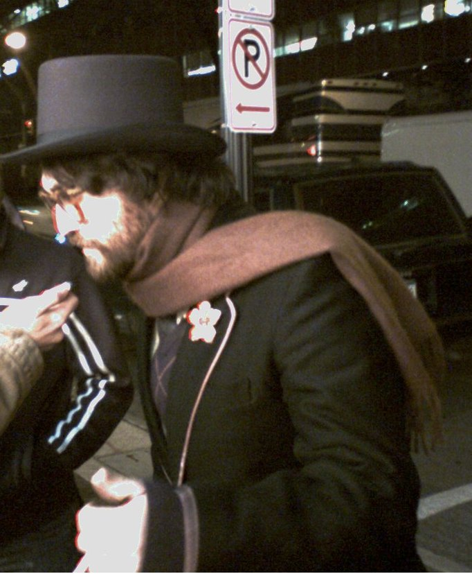 Sean Lennon outside of the State Theatre, State College, Pennsylvania, after a "Friendly Fire" concert. Picture taken using a 1.3 megapixel LG Verizon Model No. VX8100cell camera phone.